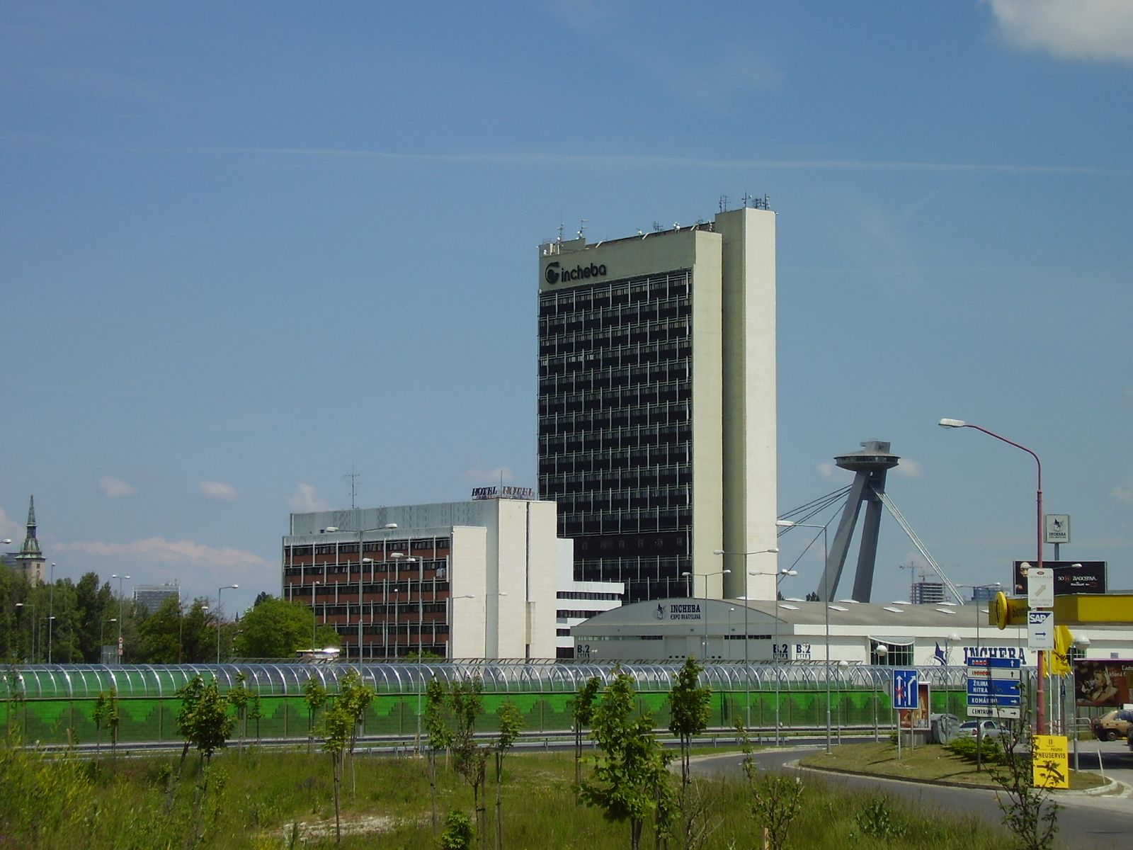 Incheba Expo complex in Bratislava, Slovakia